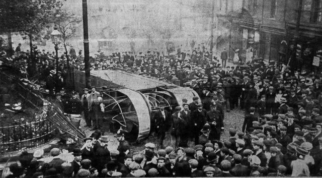 1907 Birmingham Tramway accident, contemporary postcard. See also File:Birmingham 1907 tram crash 2.jpg